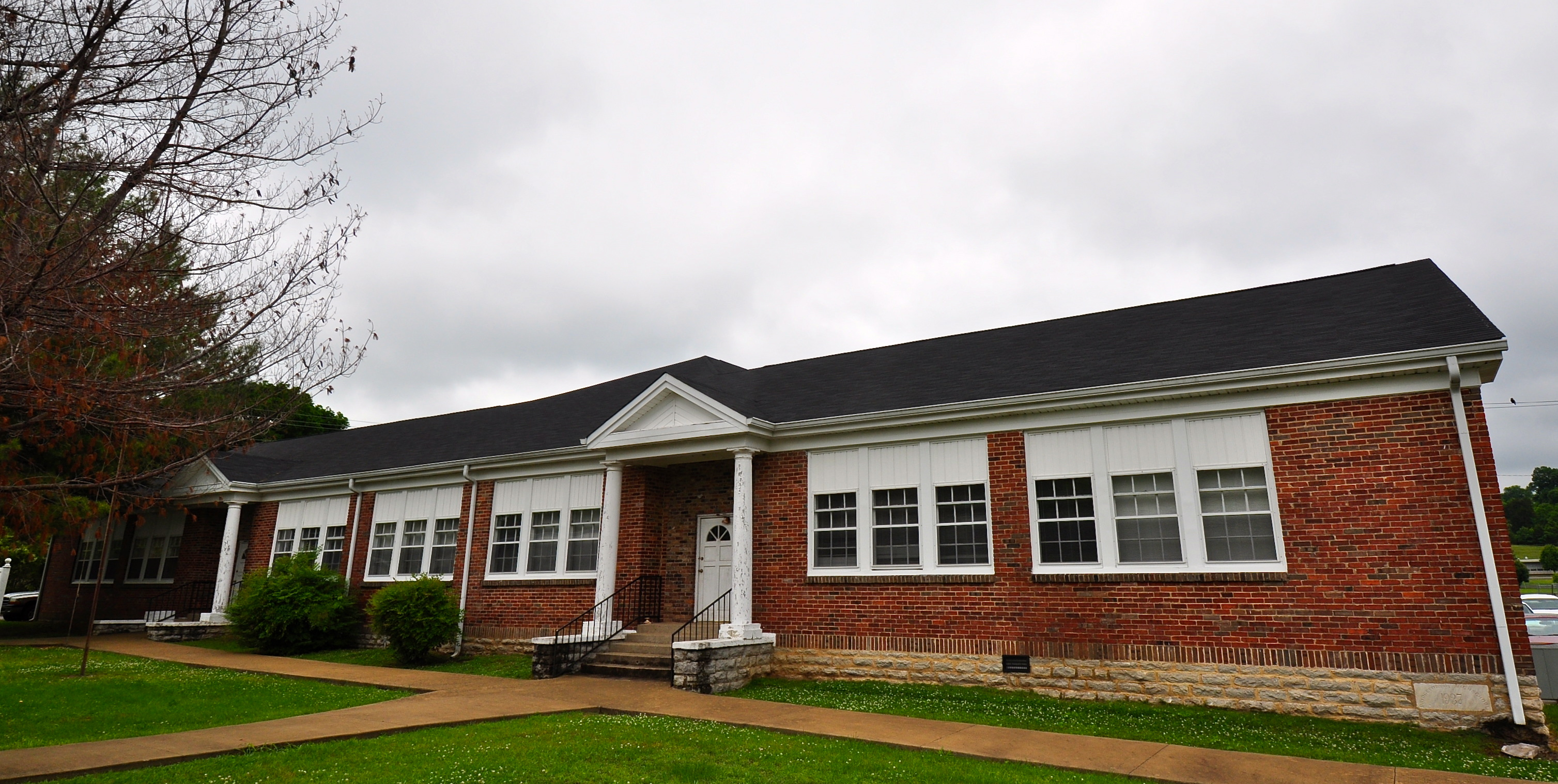 Located at Pulaski, Giles County, Tennessee. NRHP Reference #06000697, listed 9 August 2006.